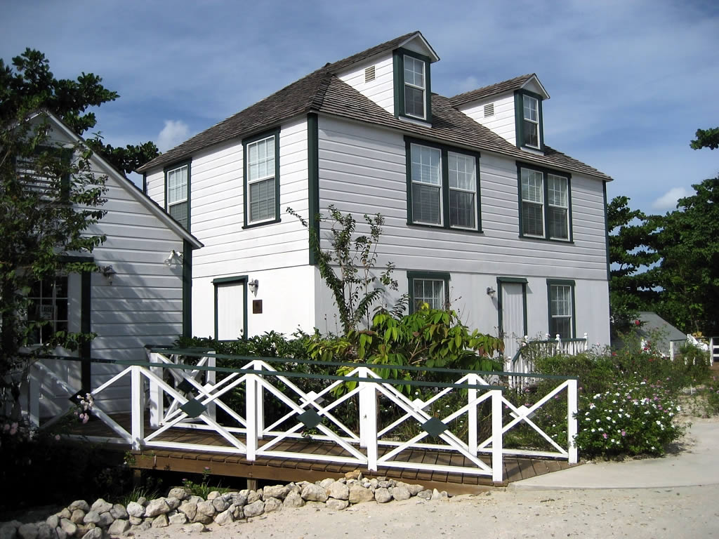 Historic Mission House in Bodden Town on Grand Cayman, Cayman Islands, Caribbean.